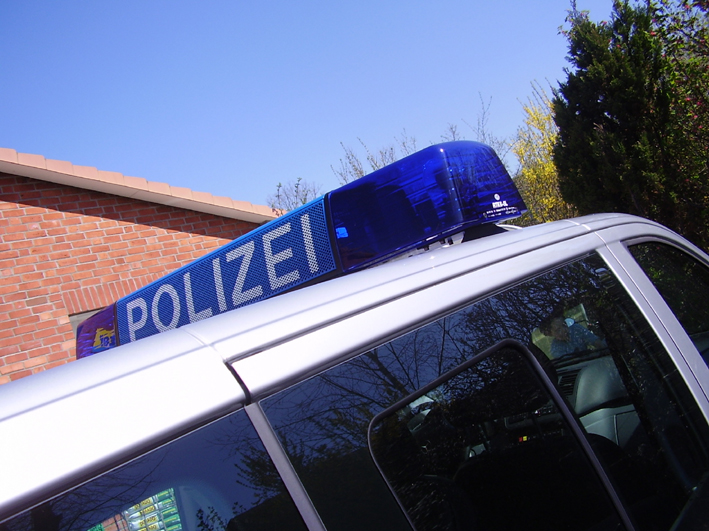 German Police with new blue design